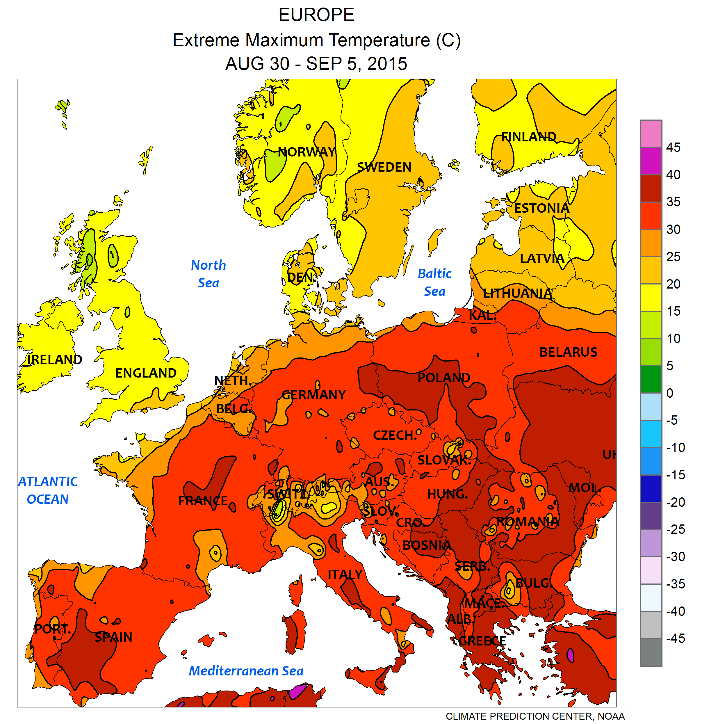 Europe: Extreme maximum temperature August 30 - September 5, 2015, computer generated contours, based on preliminary data